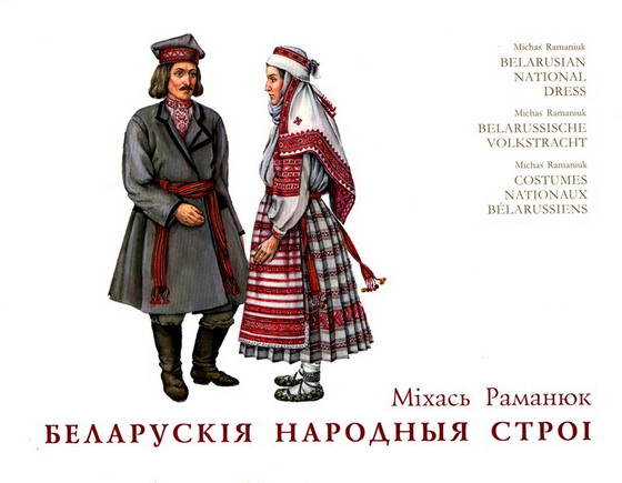 Book of Ramaniuk Mikhail "Belarusian national dress"